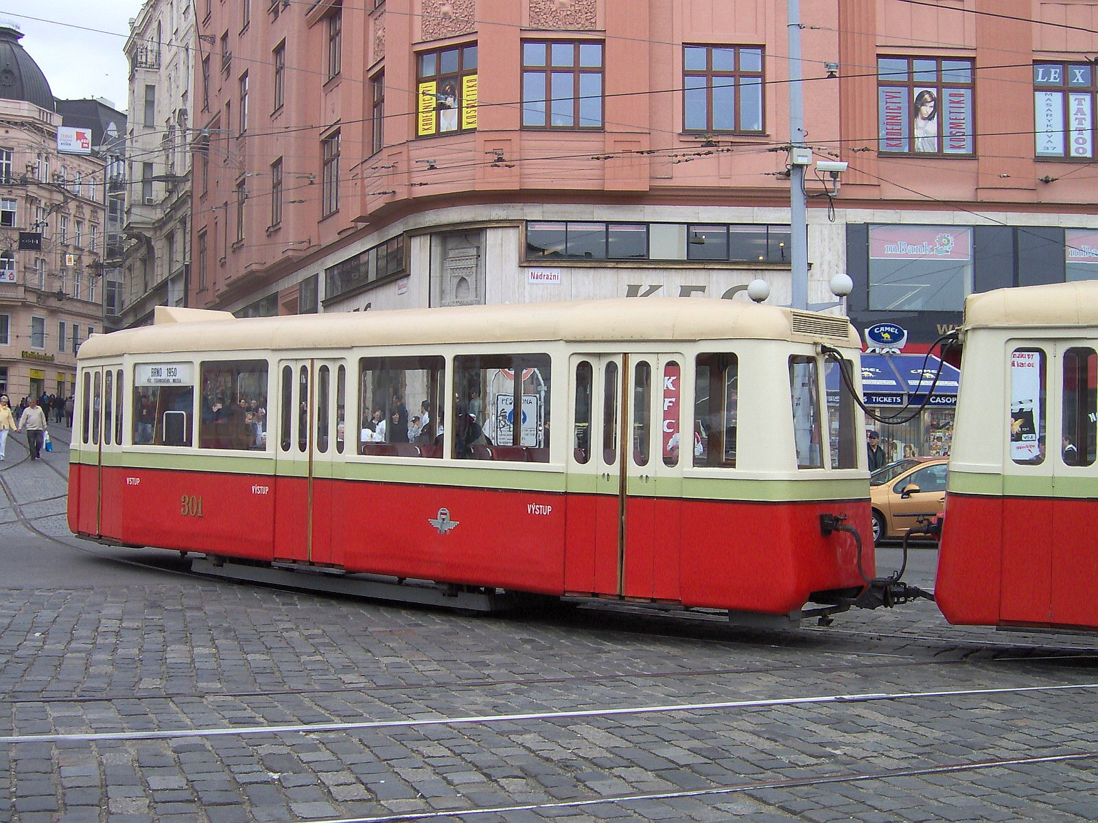 Historical tram No. 126 with trailer No. 301, 140 years of public transport in Brno, Czech Republic